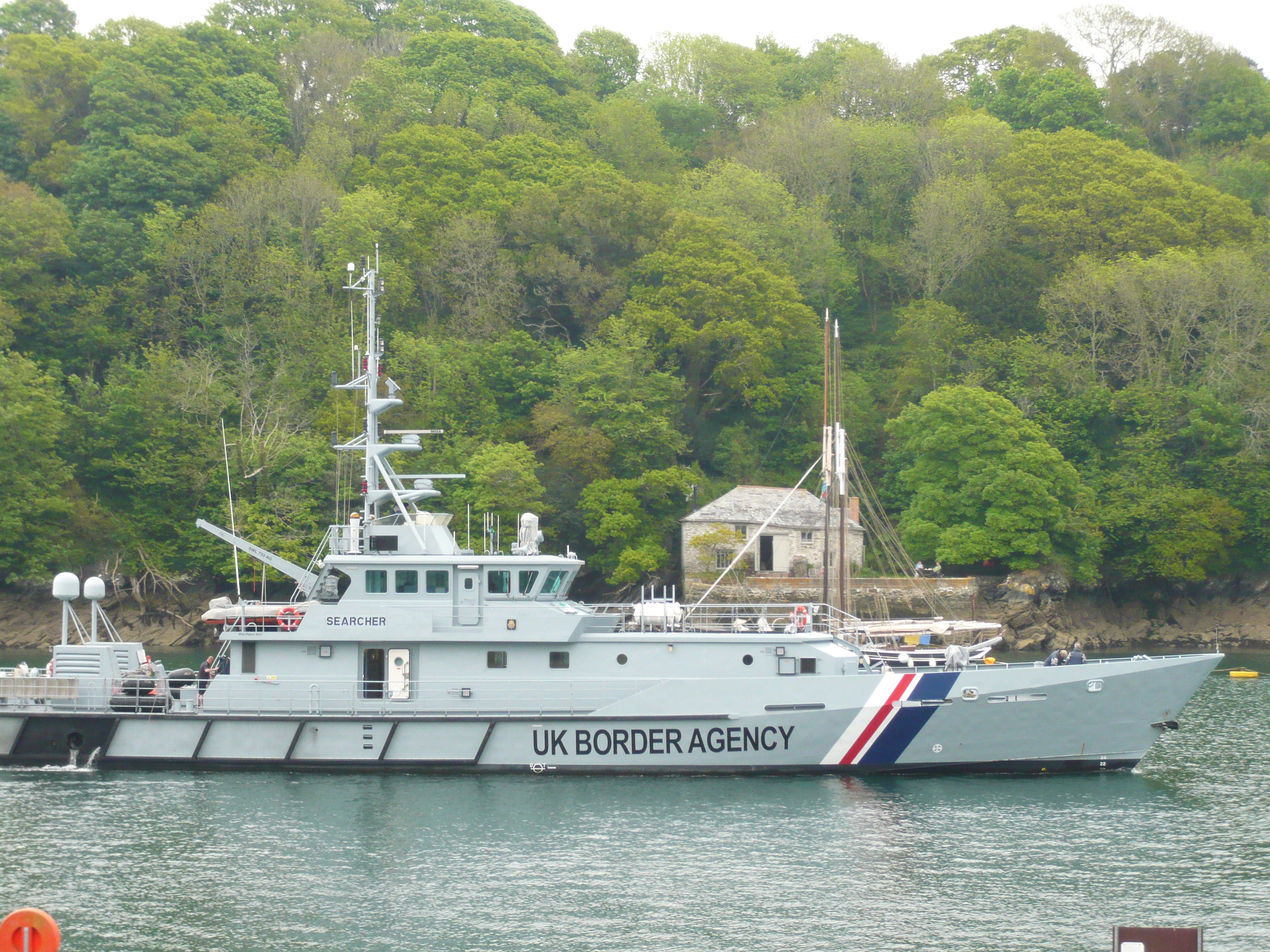 HMC Searcher, a cutter operated by the UK Border Agency - on the River Fowey, 1 May 2011